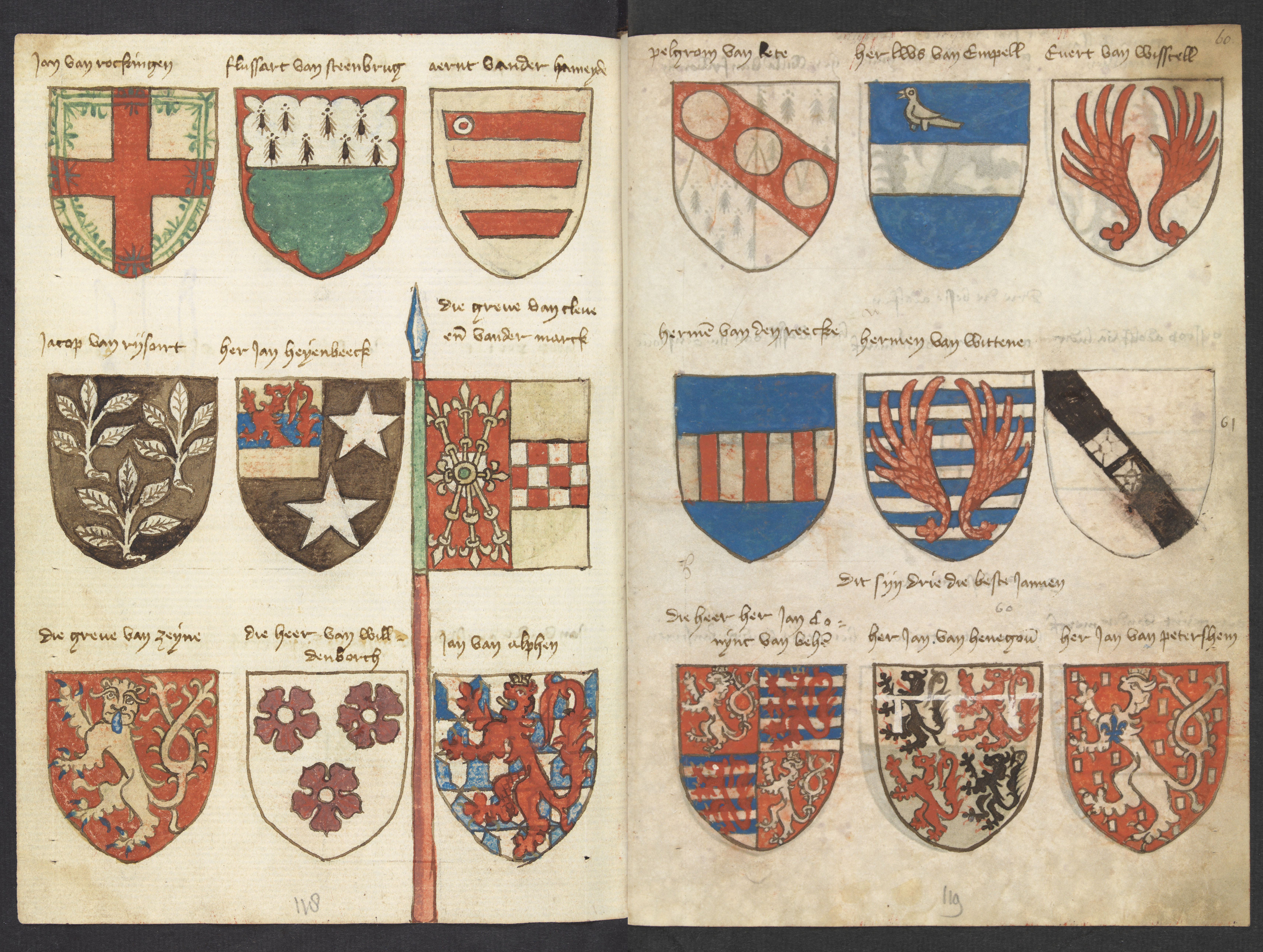 Lefthand side folio 059v; righthand side folio 060r from the Beyeren armorial / Wapenboek Beyeren